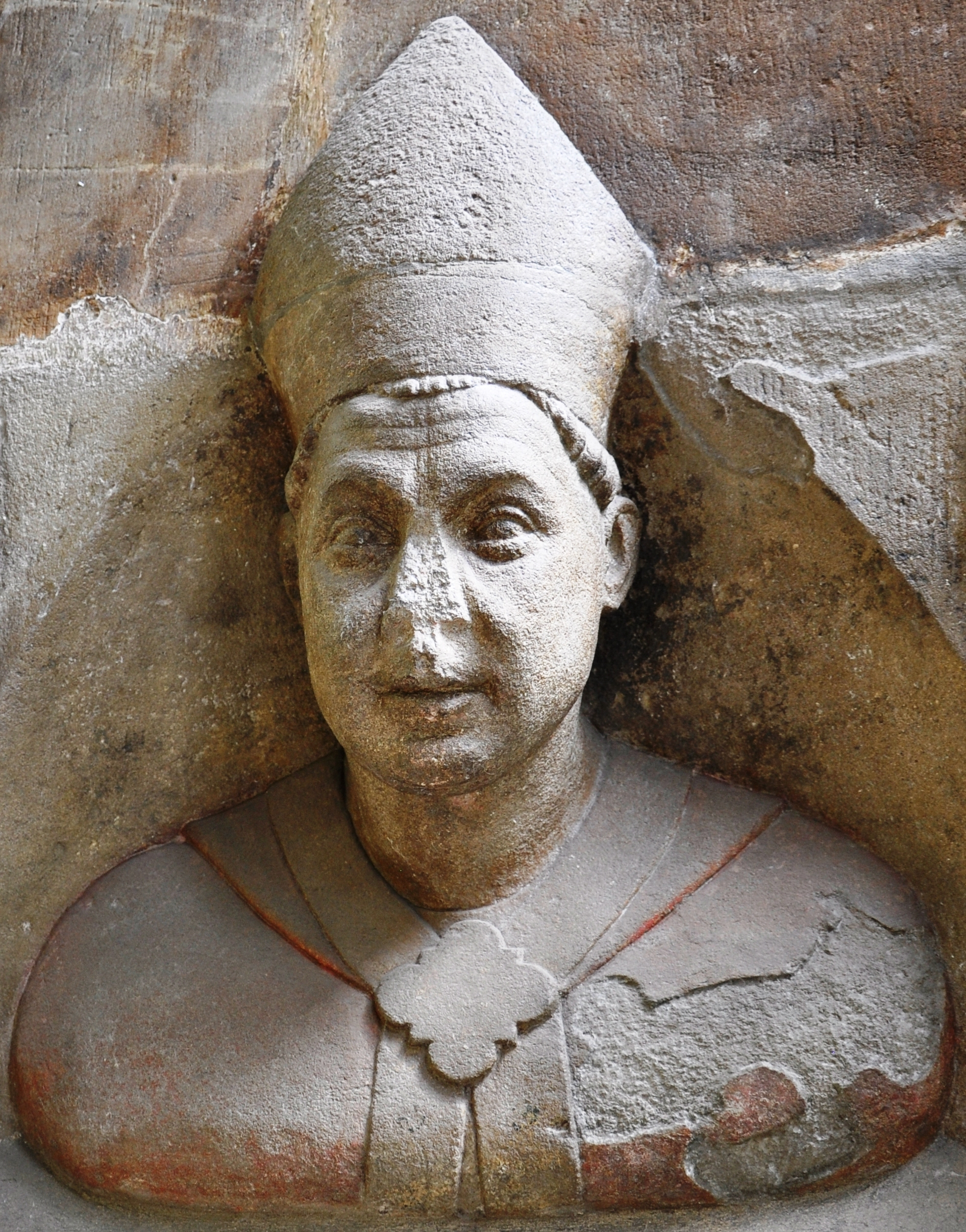 Bust of Jan of Jenštejn, the third Archbishop of Prague, from the late 14th century. St. Vitus Cathedral, Prague, Bohemia.